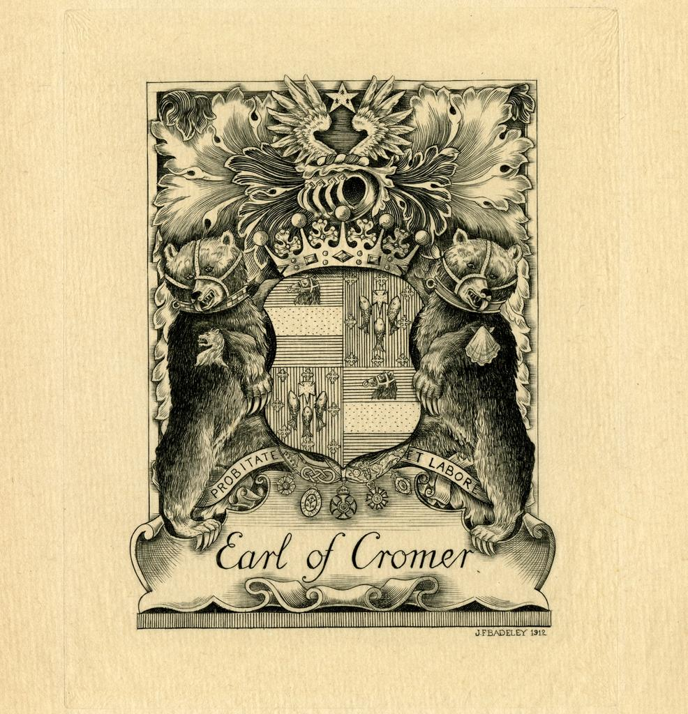 Armorial/Heraldic Bookplates. Subject: Coat of arms; Animals; Crowns; Foliage. Subject - Personal Name: Cromer.